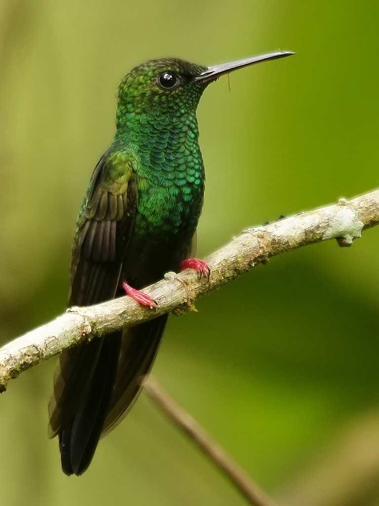 Male Red-footed Plumeleteer at Rara Avis near Las Horquetas, Costa Rica